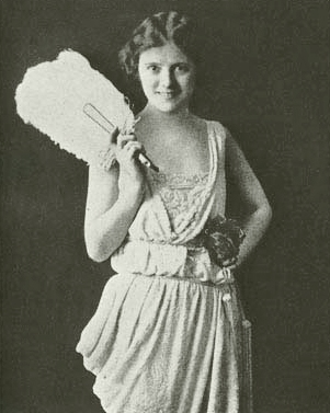 Publicity photo of Edith Taliaferro from Who's Who on the Screen